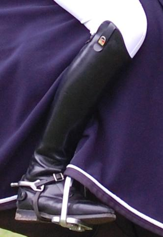 Spur